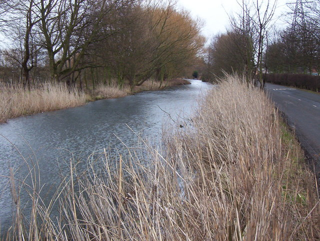 Runcorn and Latchford Canal A section of this canal still in water lies here by Eastford Road at Morley Common to the south of Warrington. The canal was opened in 1804 by the Mersey and Irwell Navigation to avoid difficulties on the Mersey in the Warrington area. The canal was closed with the construction of the Manchester Ship Canal in the 1890s.